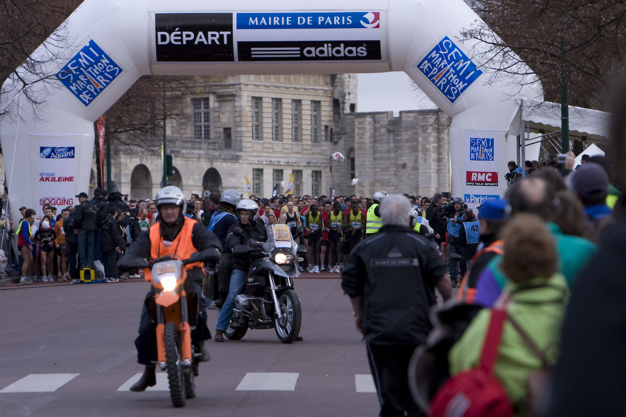 Paris Half marathon, March the 1st